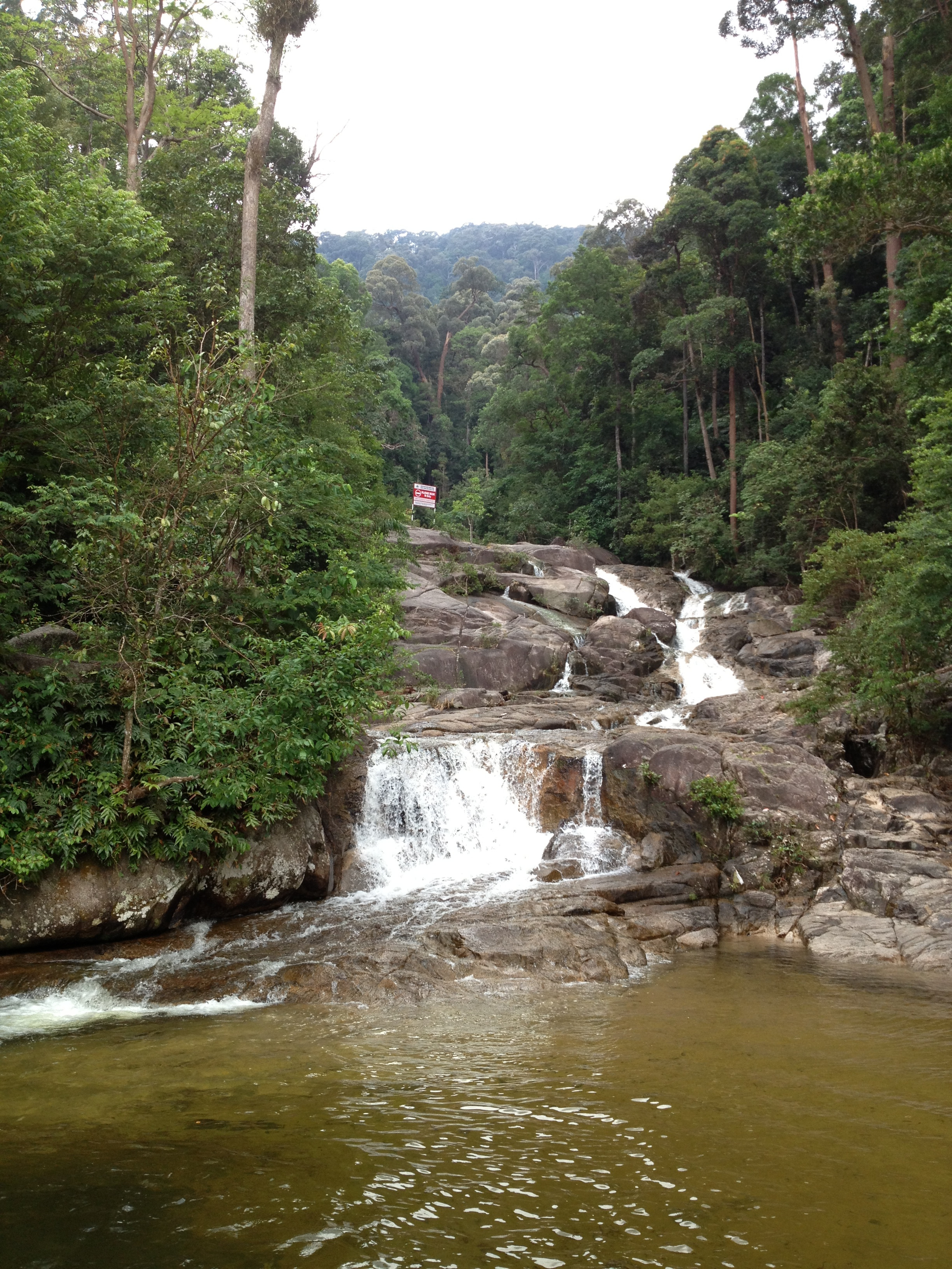 Description: Waterfall at Mount Ophir, Johore.